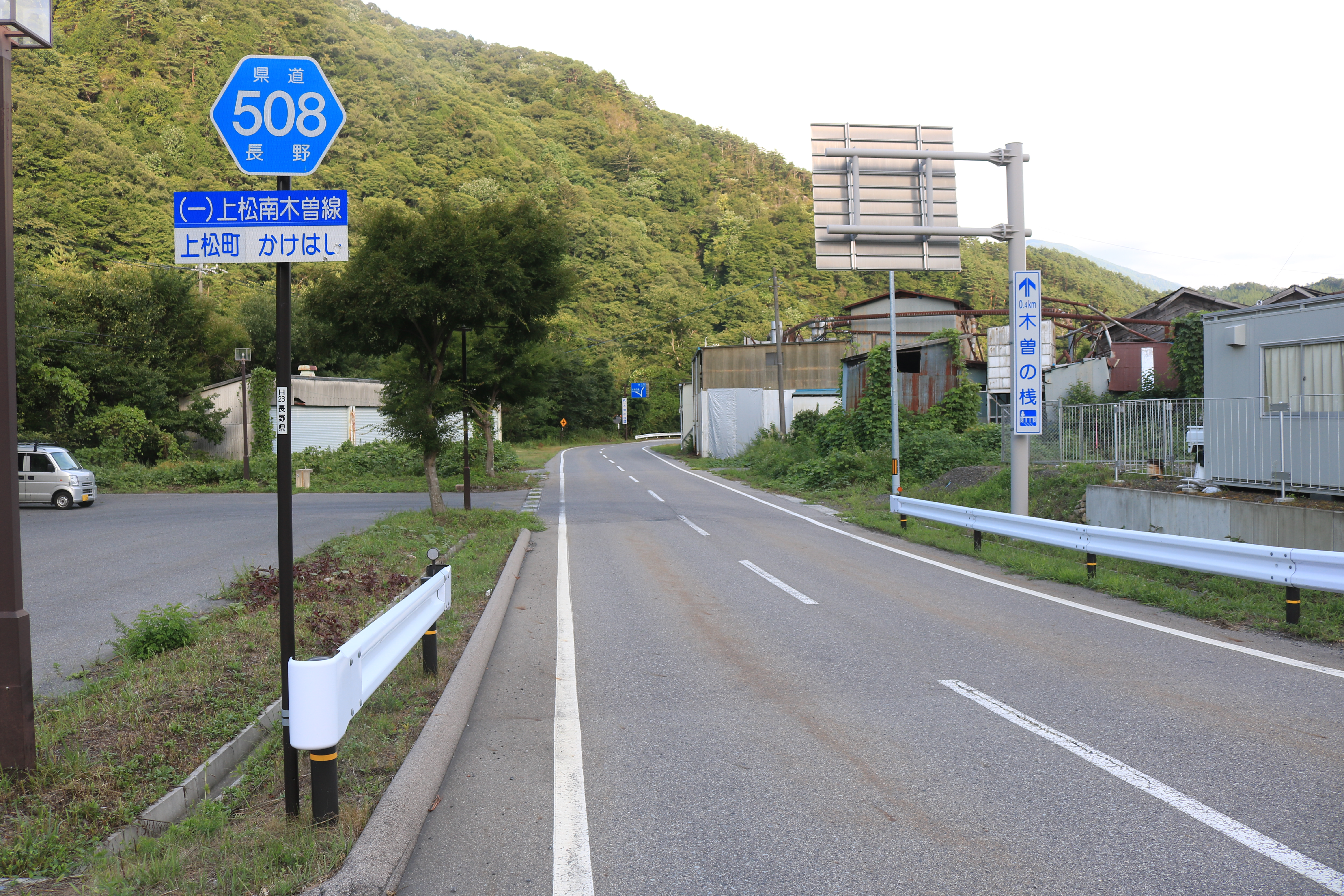 Nagano Prefectural Road Route 508 in Kamijo, Agematsu, Nagano Prefecture, Japan.